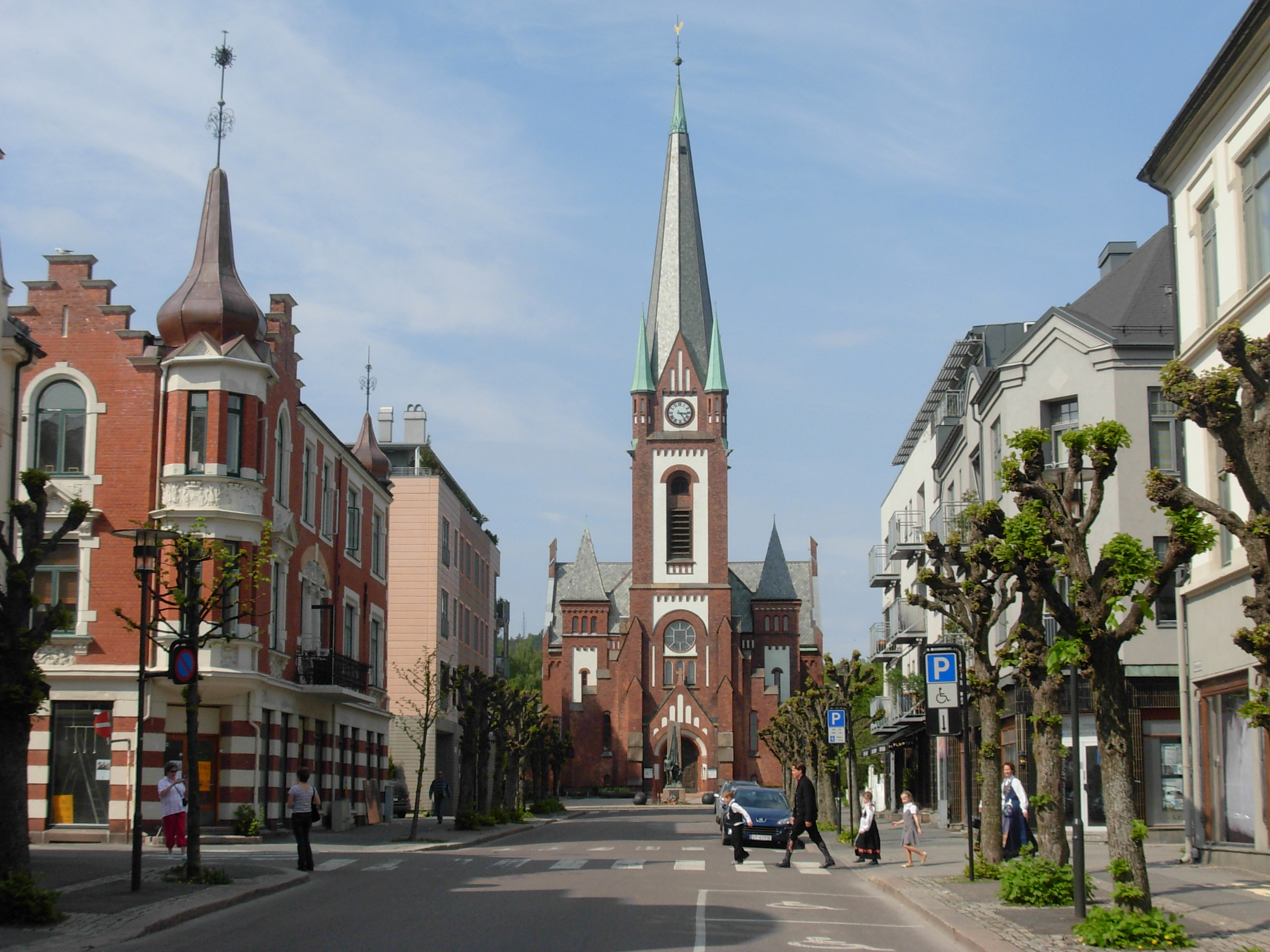 Sandefjord church and Kirkegata (Church street), Norway